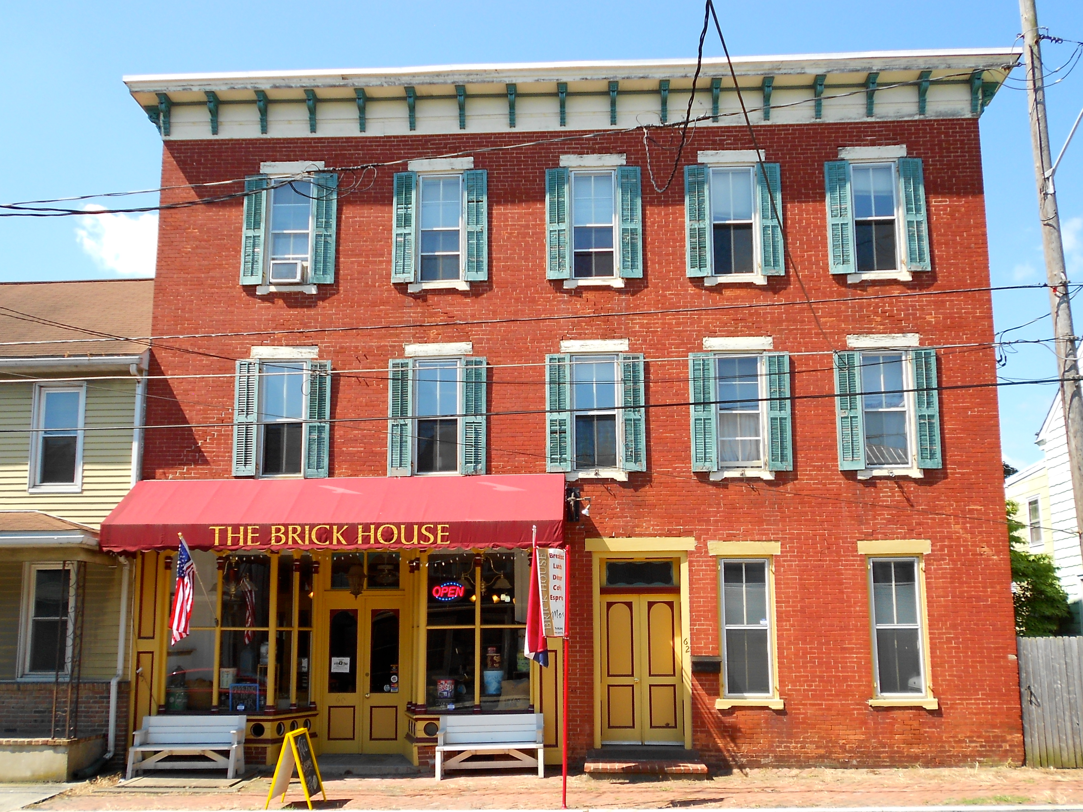 Building in the Manheim Borough Historic District (listed on the NRHP on February 4, 2000) The district is roughly bounded by Colebrook, Laurel, Fuller Dr., And Fulton Streets in Manheim, Lancaster County, Pennsylvania